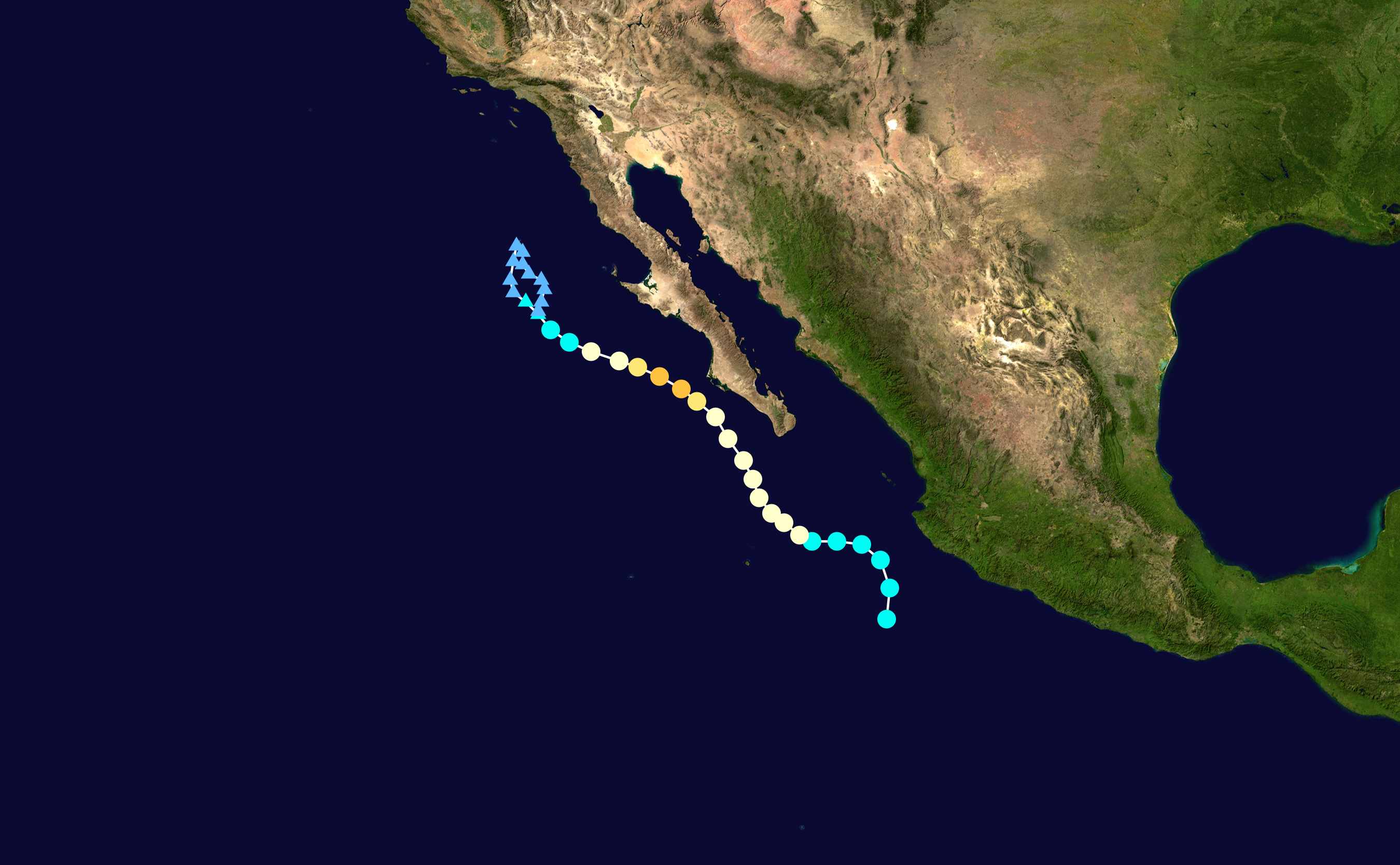 Track map of Hurricane Norbert of the 2014 Pacific hurricane season. The points show the location of the storm at 6-hour intervals. The colour represents the storm's maximum sustained wind speeds as classified in the Saffir–Simpson scale (see below), and the shape of the data points represent the nature of the storm, according to the legend below. Saffir–Simpson scale Tropical depression≤38 mph≤62 km/h Category 3111–129 mph178–208 km/h Tropical storm39–73 mph63–118 km/h Category 4130–156 mph209–251 km/h Category 174–95 mph119–153 km/h Category 5≥157 mph≥252 km/h Category 296–110 mph154–177 km/h Unknown Storm type Tropical cyclone Subtropical cyclone Extratropical cyclone / Remnant low / Tropical disturbance / Monsoon depression